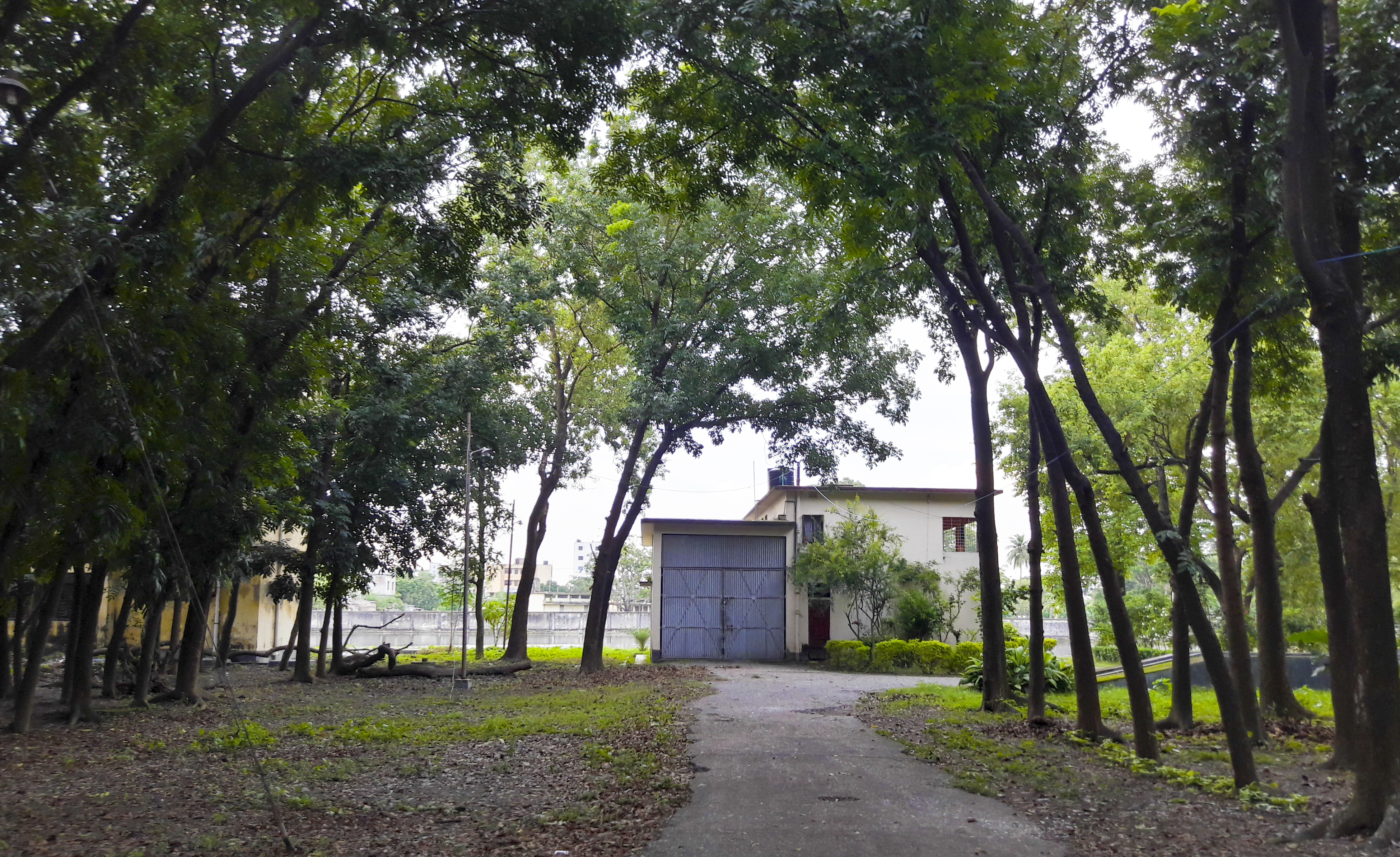 Institute of Health Technology, Rajshahi or short form I.H.T Rajshahi One of the Government Medical Institute in Rajshahi, Bangladesh.